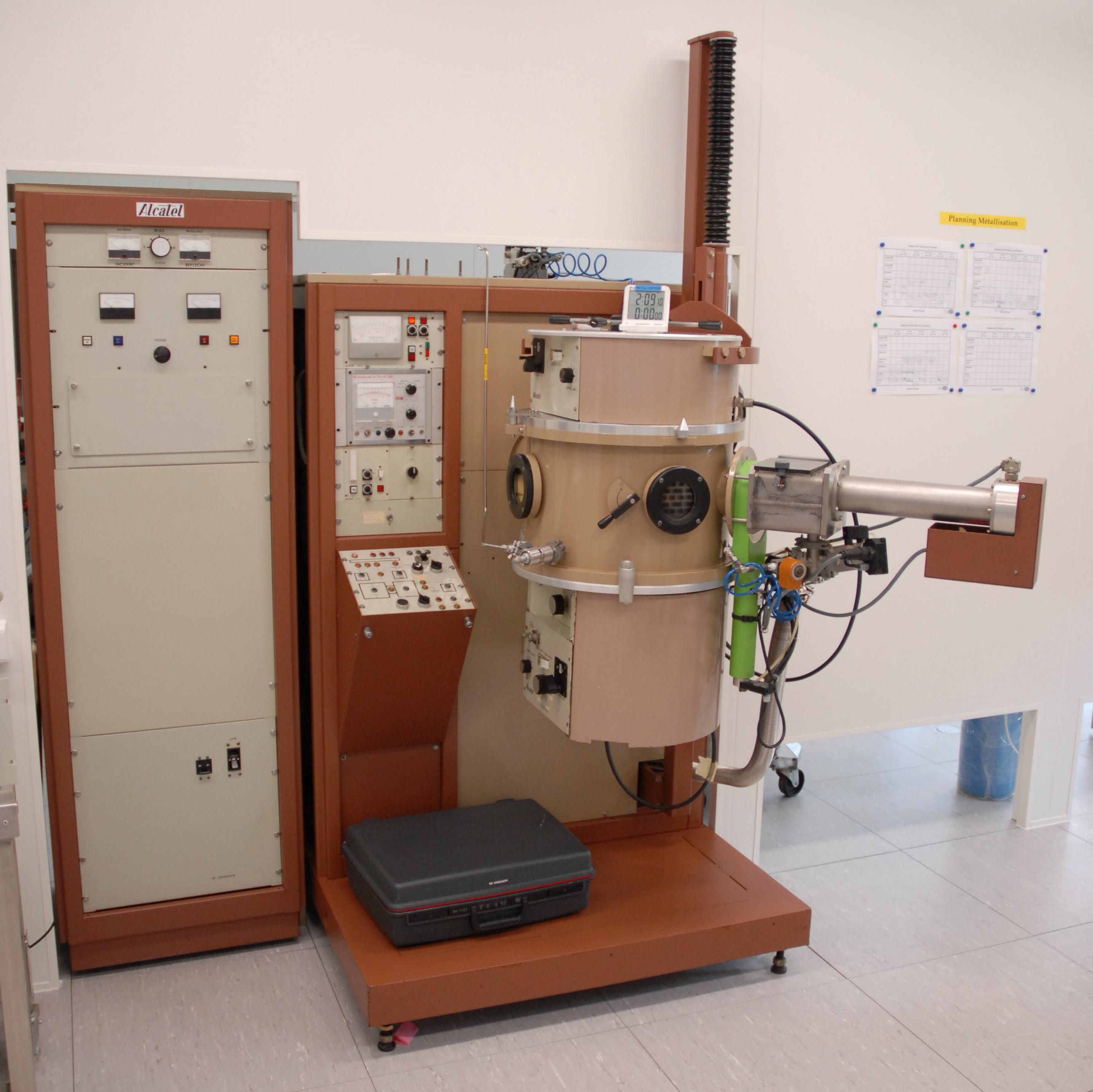 Evaporation machine used for metallizations at LAAS technological facility in Toulouse, France.